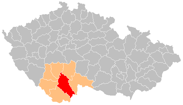 District of České Budějovice